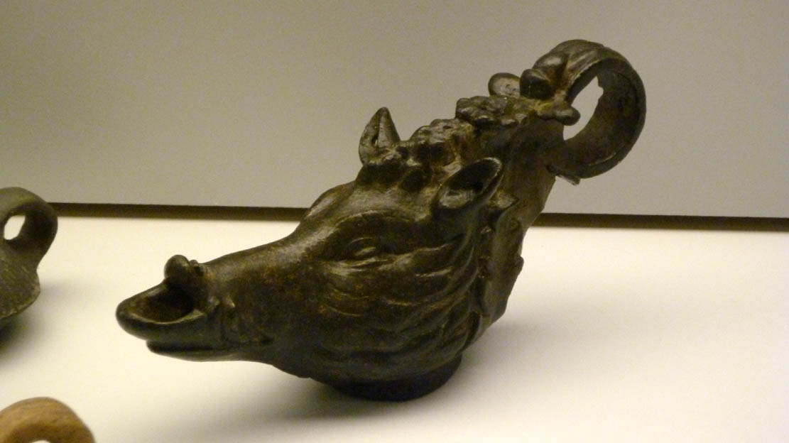 Ancient Roman oil lamp in bronze found in Lorca (Spain). Archaeological museum of Murcia.